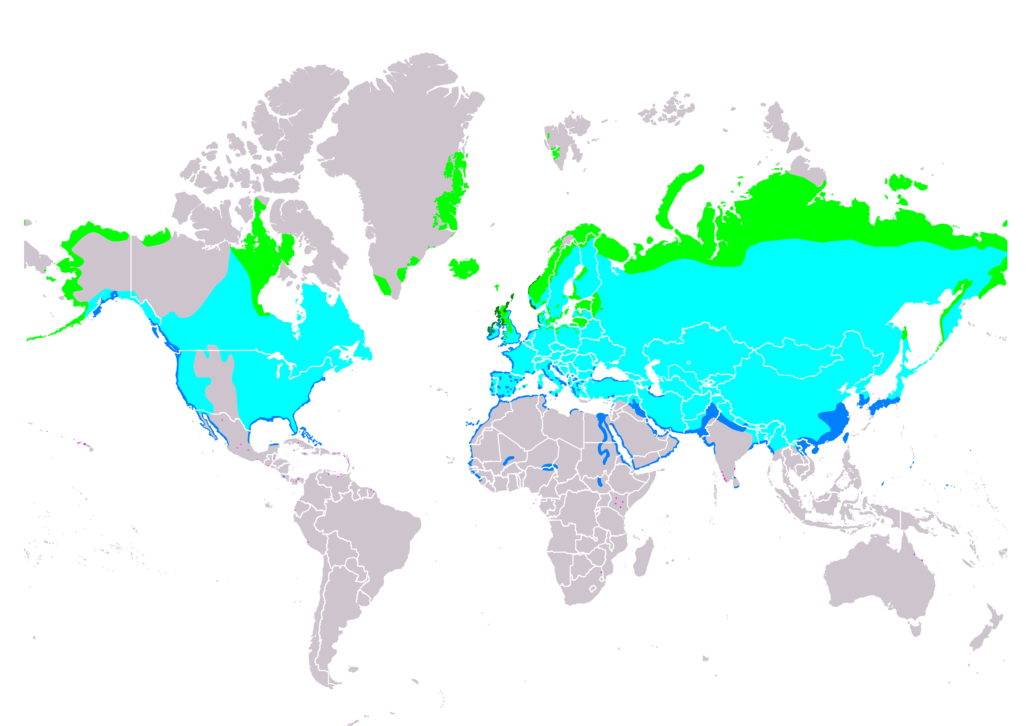 Map of dunlin (Calidris alpina) according to IUCN version 2018.2 , Legend: Extant, breeding (#00FF00), Extant, resident (#008000), Extant, passage (#00FFFF), Extant, non-breeding (#007FFF), Extant & Vagrant (seasonality uncertain) (#FF00FF)